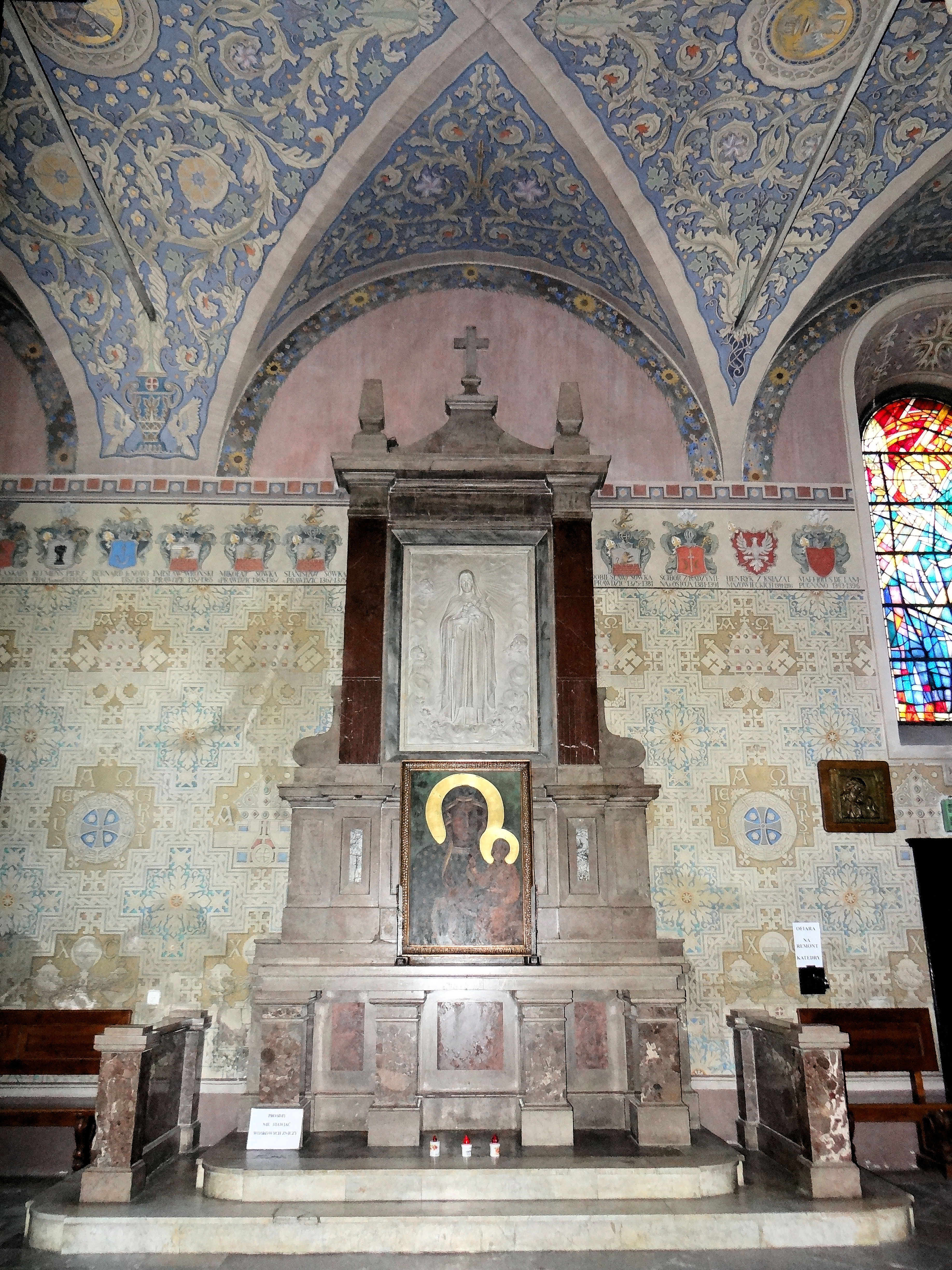 Altar of Płock Cathedral